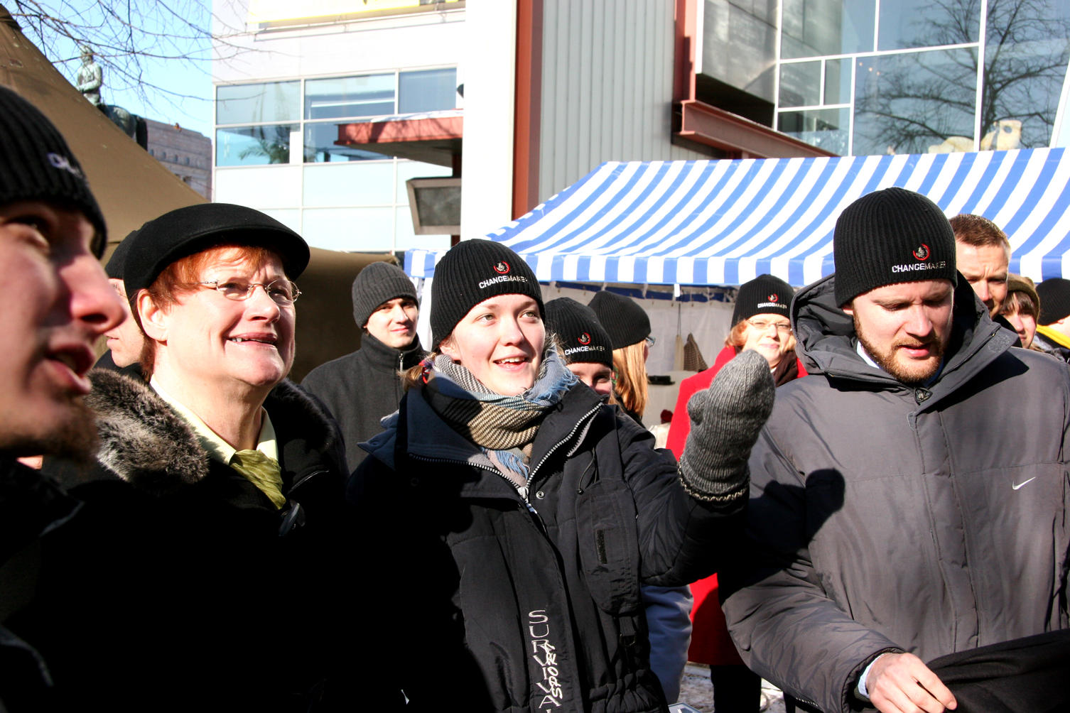 Finnish President Tarja Halonen visited Changemaker tent village in Helsinki, Finland in March 2005.